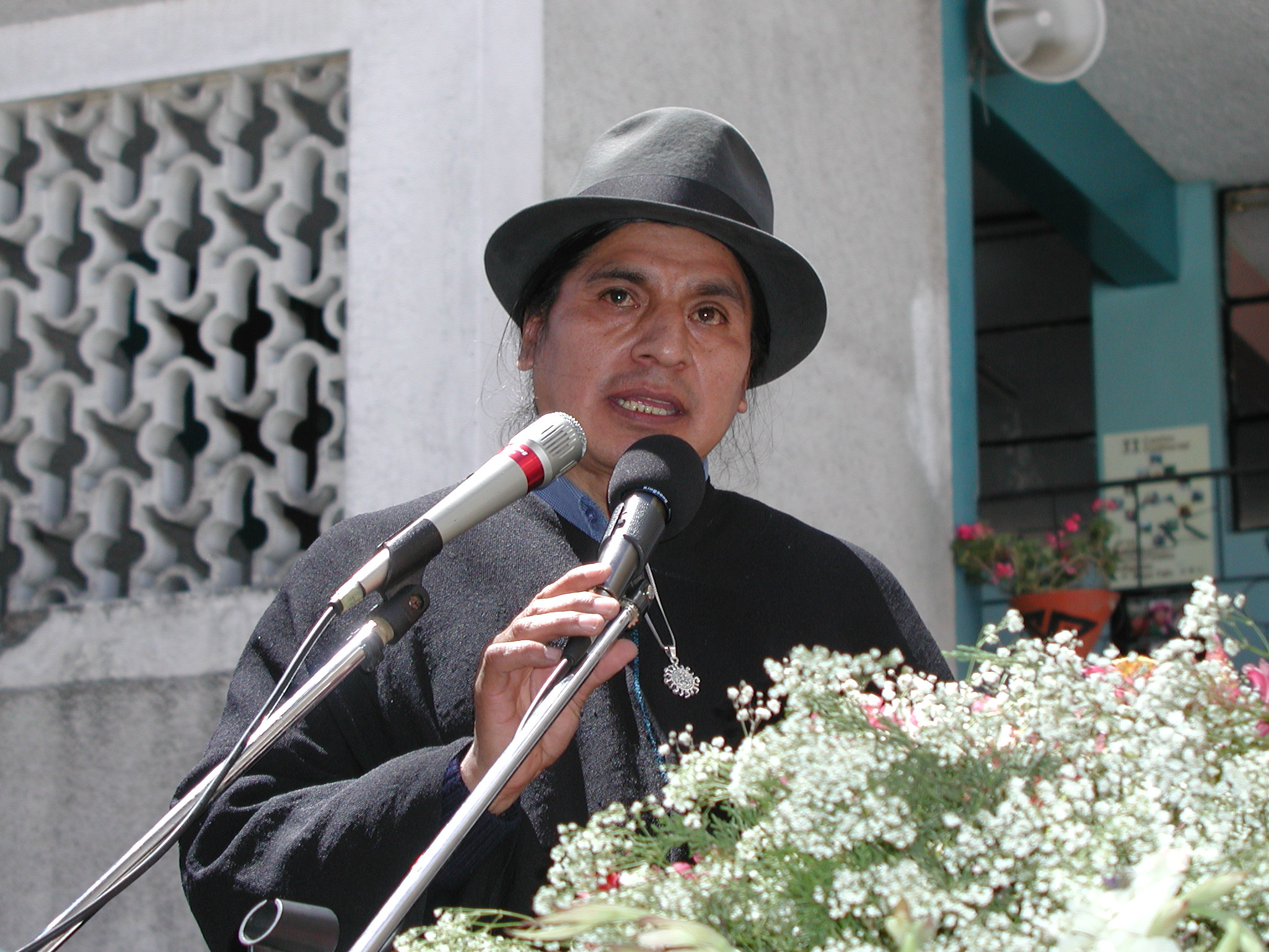 Luis Macas speaking at the II Cumbre Continental de Pueblos y Nacionalidades Indígenas de Abya Yala (Américas)[1] on July 22, 2004 in Quito, Ecuador